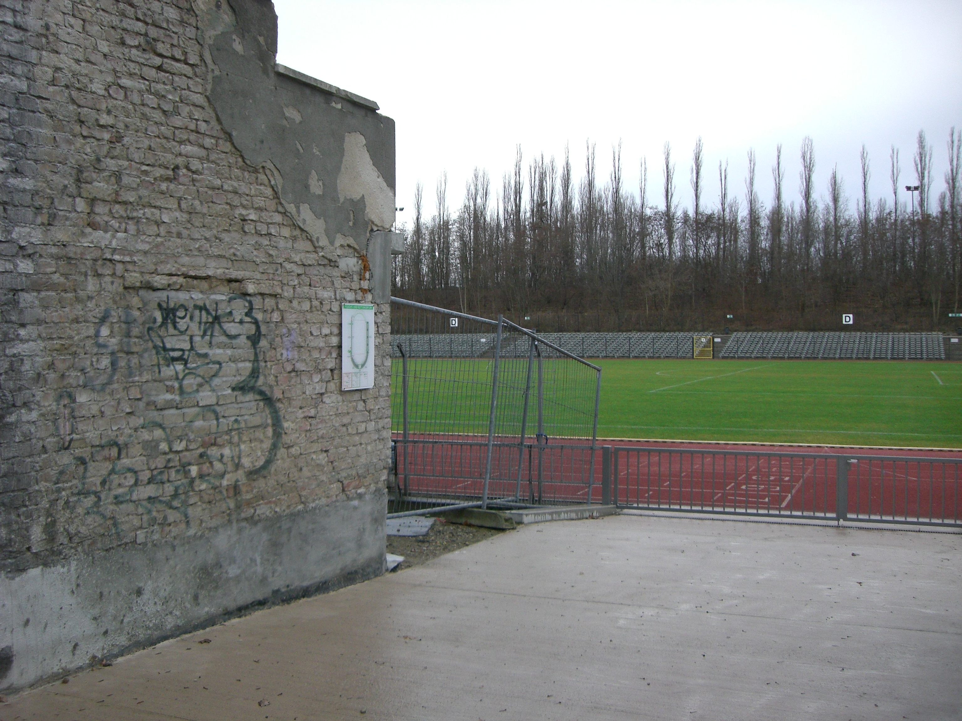 part of the main stand (left) and opposite stand with new plastic seats in Post Stadium in Berlin as of Dec. 2007. The new seats were the first sign of redevelopment to use the stadium as a football venue again. The stadium was used for 1936 Olympic football matches, served as the venue for the 1934 German Championship Final (Schalke vs. Nuremberg, 2-0) and after the war as the stadium of Tennis Borussia Berlin, among other clubs.